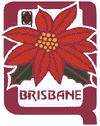 This is the 1980's badge displayed on the Combined Brisbane RL jumpers